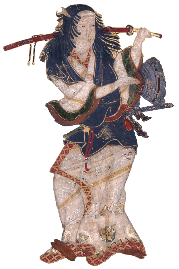 Izumo no Okuni (from Okuni Kabuki-zu Byōbu, a six-panel screen, a collection of Kyoto National Museum).